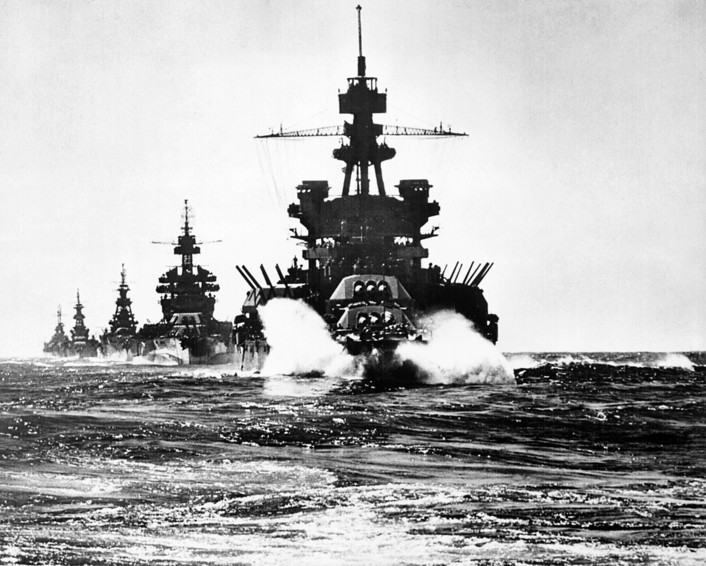 The U.S. Navy battleship USS Pennsylvania (BB-38) leads USS Colorado (BB-45), USS Louisville (CA-28), USS Portland (CA-33), and USS Columbia (CL-56) into Lingayen Gulf before the landing on Luzon, Philippines in January 1945. Battleships and other big gun naval vessels that served in the Pacific Theatre during World War II were used primarily for offshore bombardment of enemy positions and as anti-aircraft screens for aircraft carriers. Note that the wartime censor has removed Pennsylvania´s radar antennas.